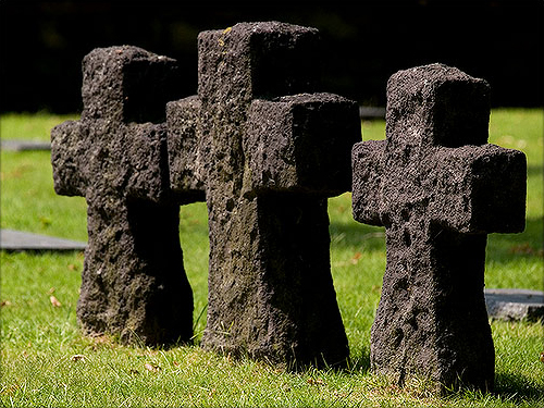 German Crosses, Langemark War Cemetery, Belgium